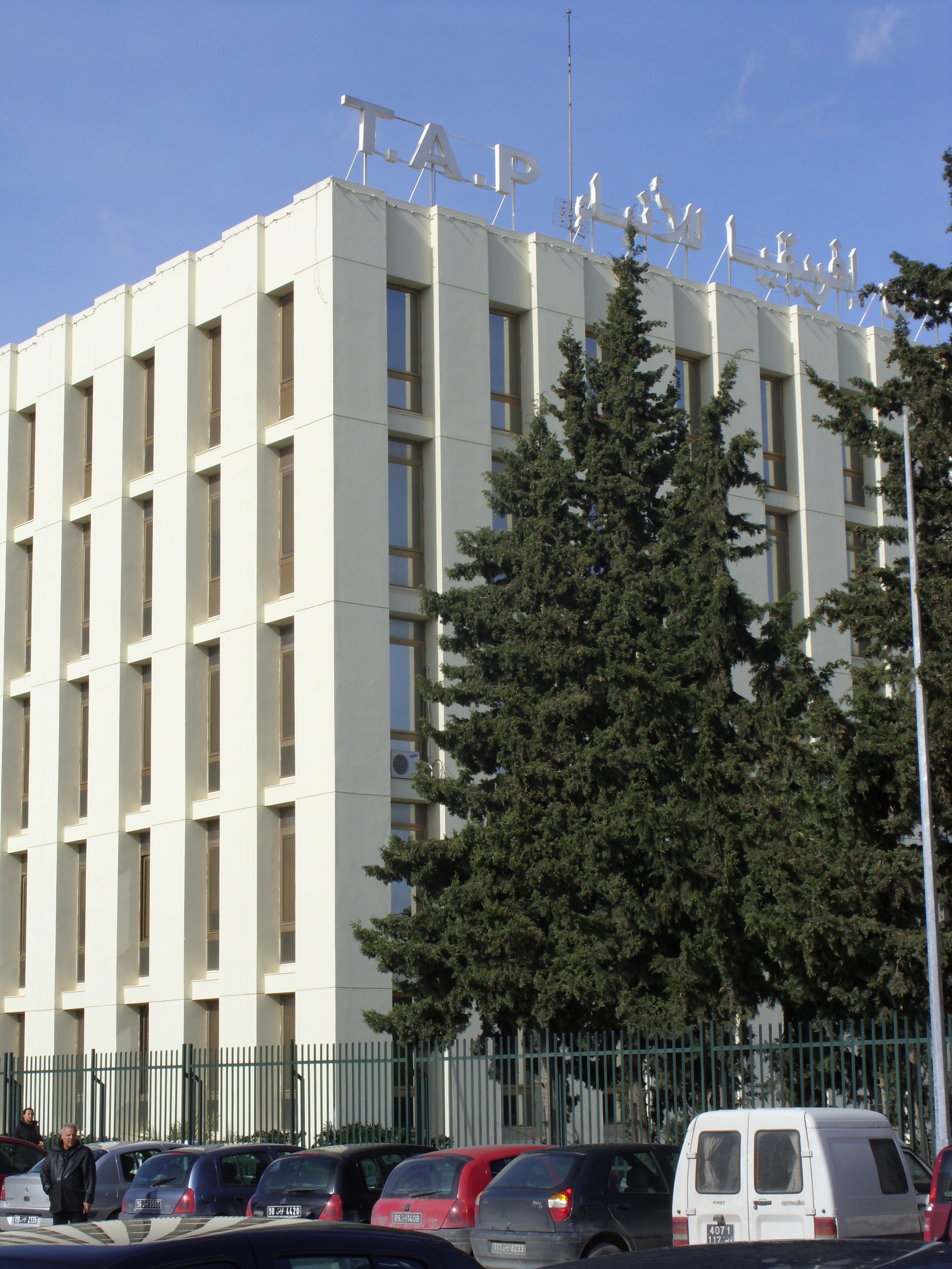 Tunis Africa Presse headquarters